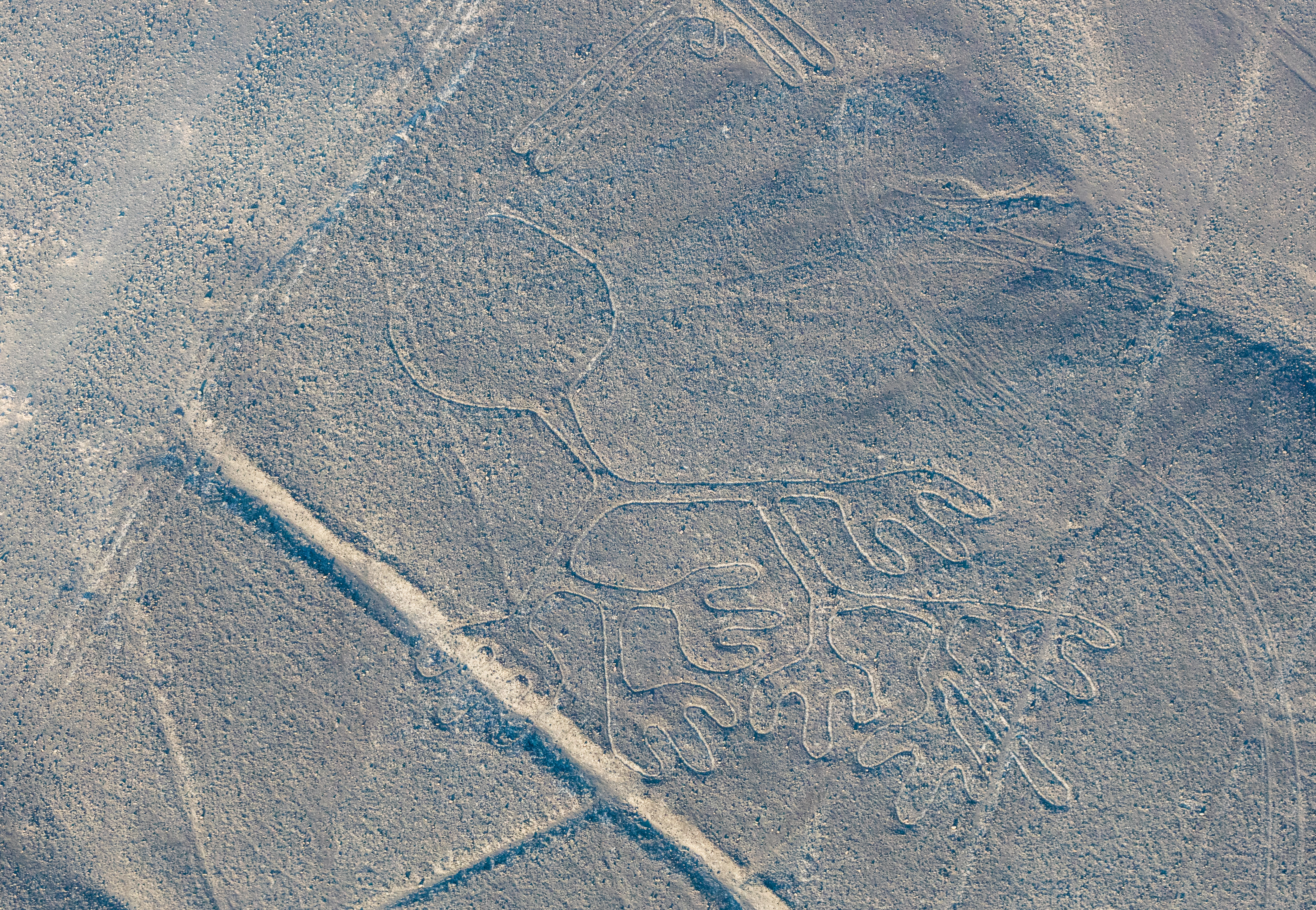 Nazca Lines, Nazca, Peru